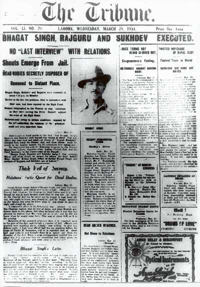 The Lahore Tribune's front page on the 25th of March 1931. The headline reads "BHAGAT SINGH, RAJGURU AND SUKHDEV EXECUTED." The article also reveals that there were no last interviews with relations and that the dead bodies were secretly disposed of.